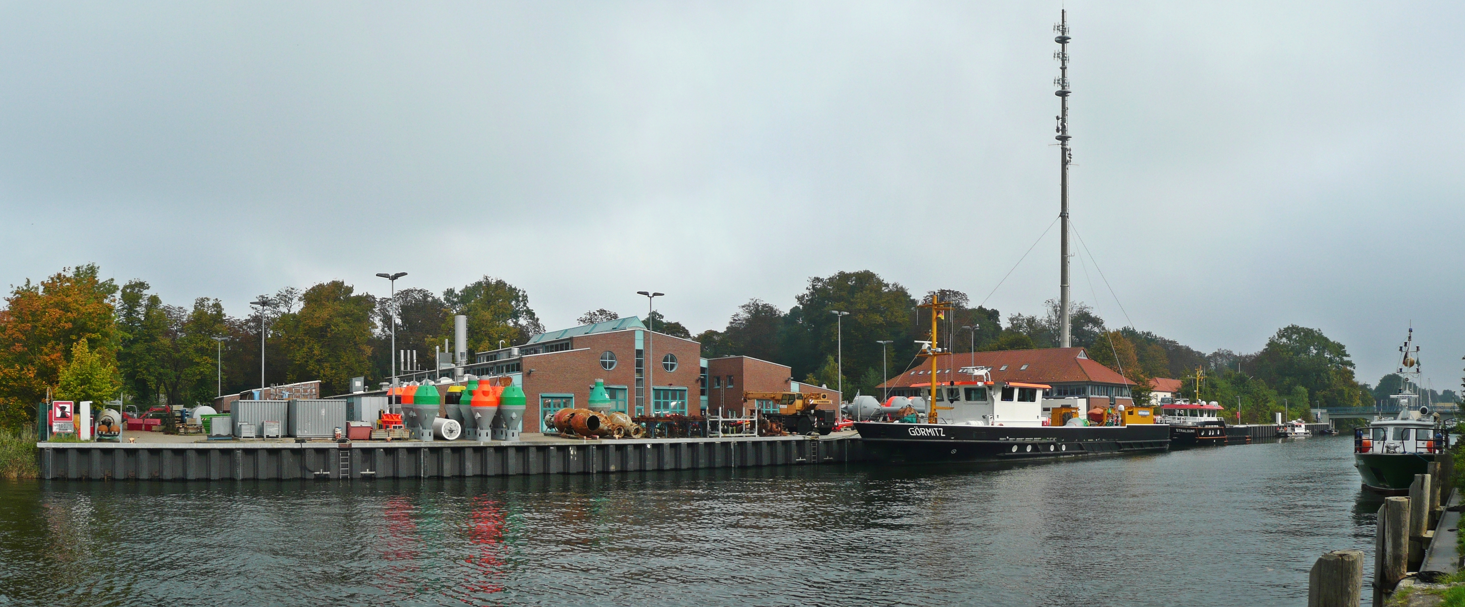 Dänholm: builders yard of the Waterways and Shipping Directorate Stralsund.